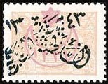 A postage stamp of the Nejdi Administration of Hejaz, Mar.-Apr. 1925, 5 pa, Scott #3. Handstamped in black on stamp of Turkey, 1915, with crescent and star in red. The overprint reads: “1343. Barid al Sultanat an Nejdia” (1925. Post of the Sultanate of Nejd).